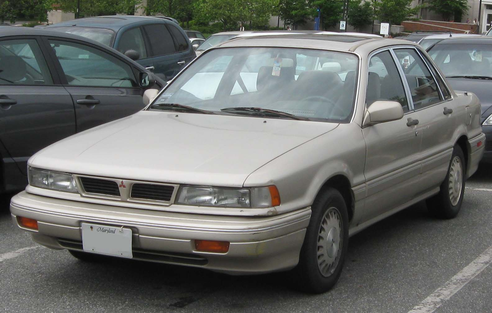 Mitsubishi Galant photographed in College Park, Maryland, USA.